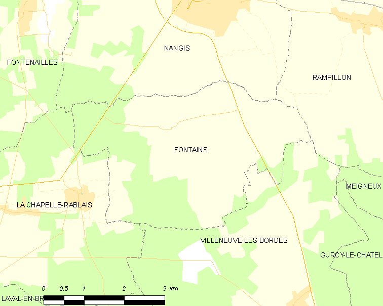 Map of French municipality Fontains